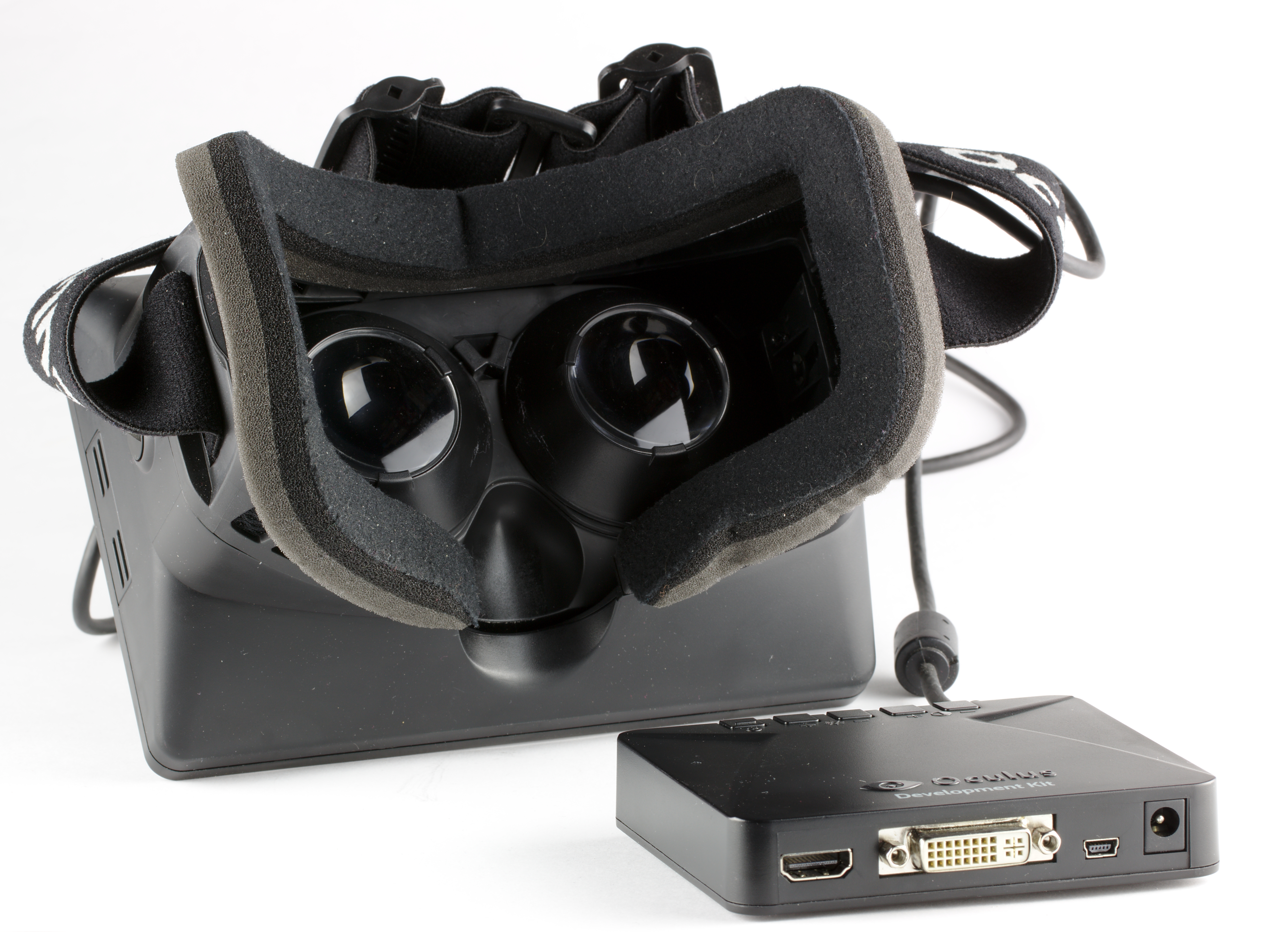 Oculus Rift - Developer Version - Back and Control Box